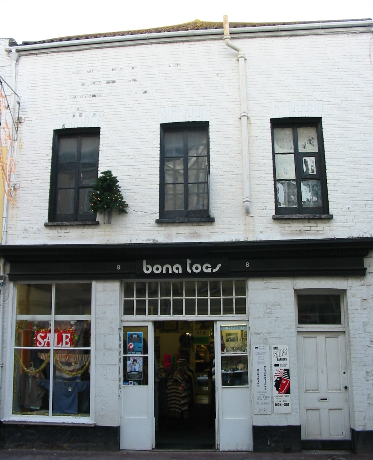 Bona Togs clothes shop in Saint Helier, Jersey